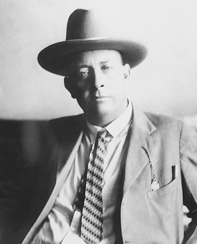 Captain Frank Hamer circa early 1920s